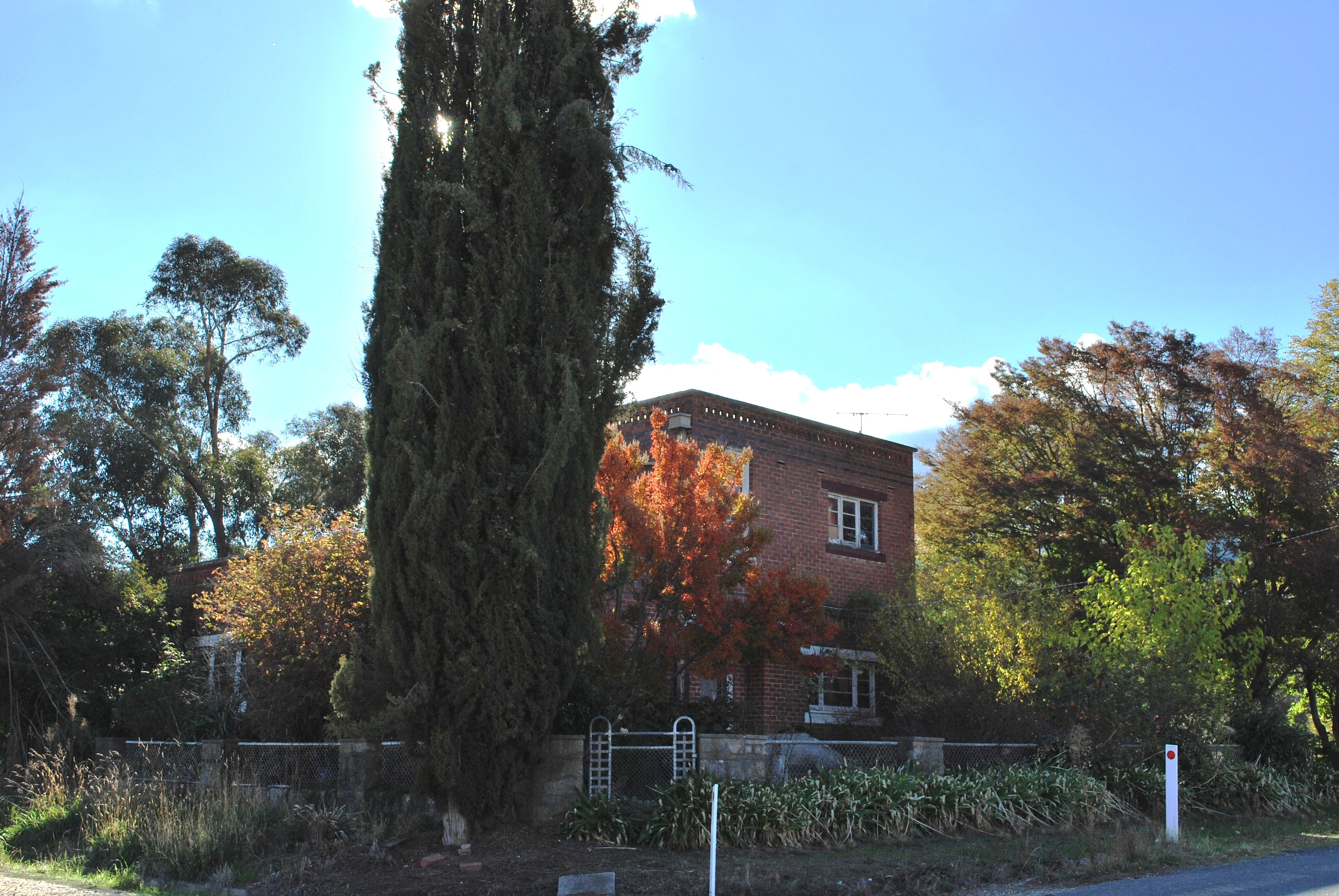 House at Old Tallangatta, Victoria